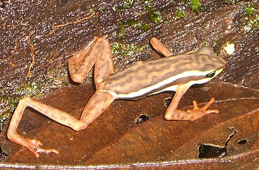 Please report references to .